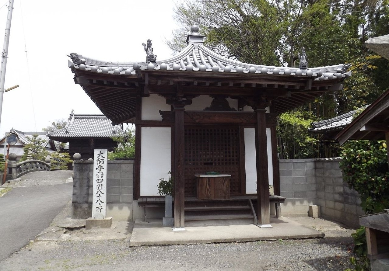 Sairinji Temple